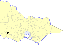 Location of the former City of Hamilton within Victoria.